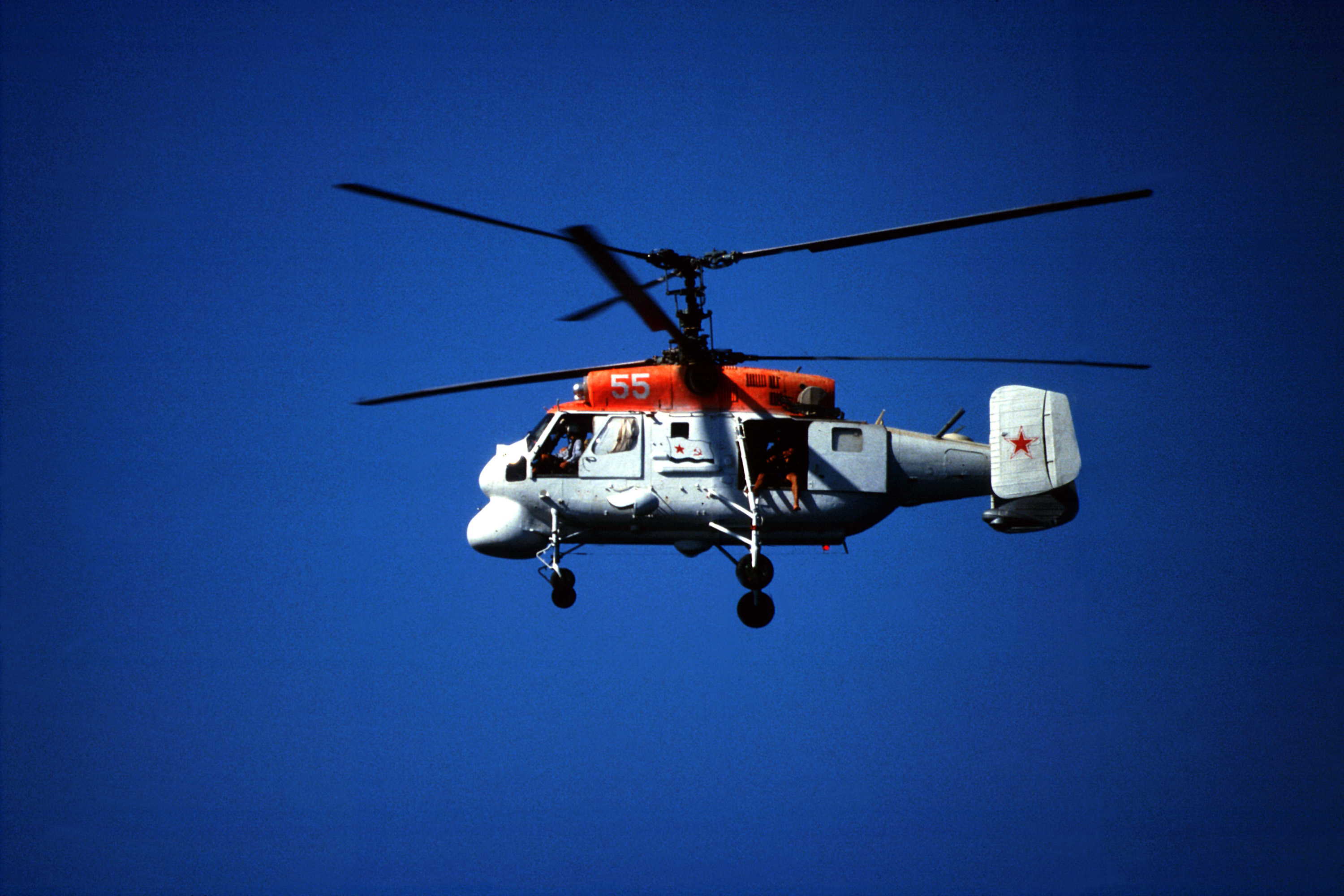 A left side view of a Soviet Ka-25 Hormone-C helicopter.